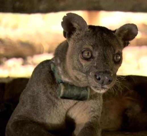 Fossa with controller devise